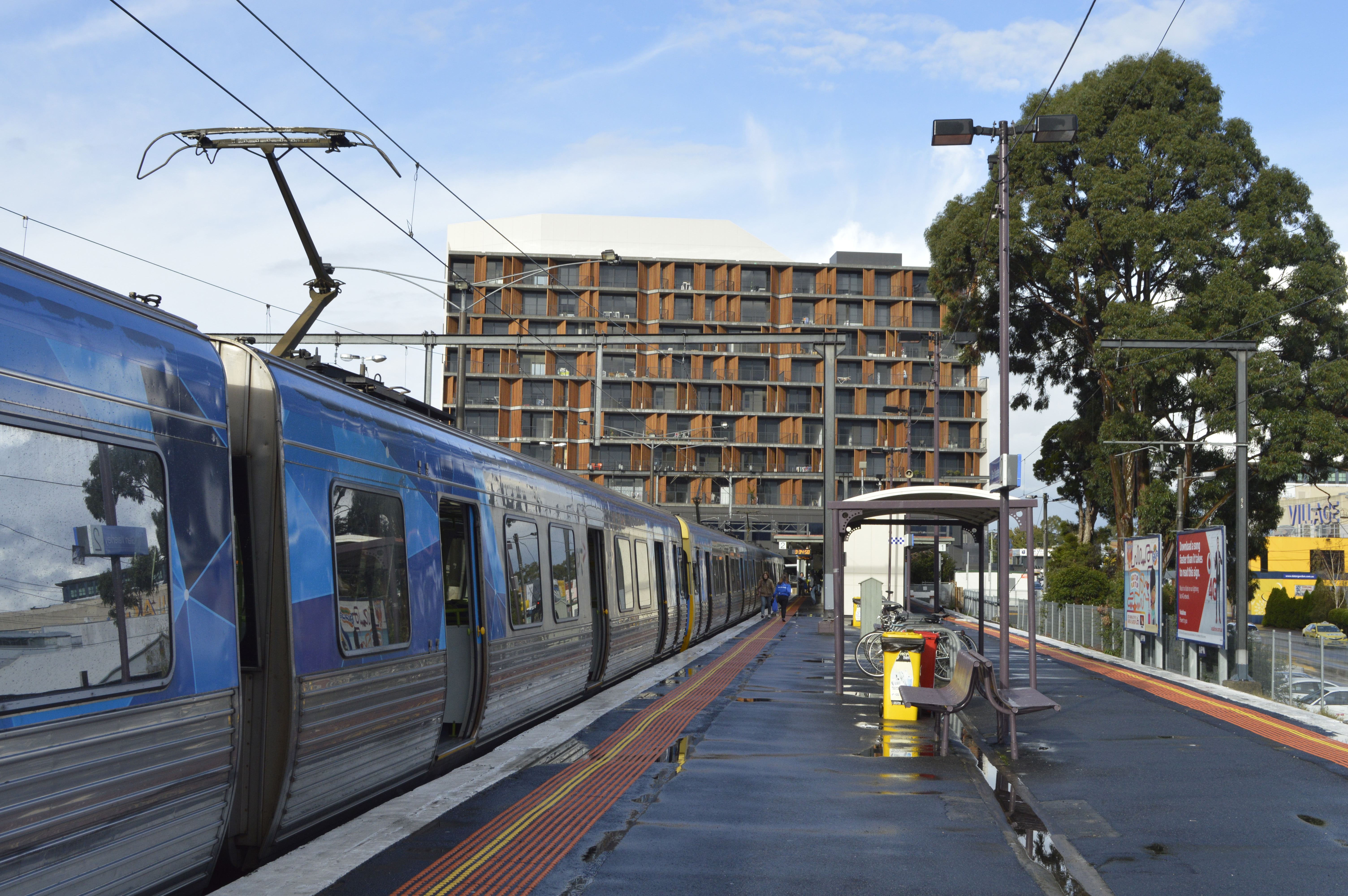 The station in May 2014 with the 'Ikon' development in the background.